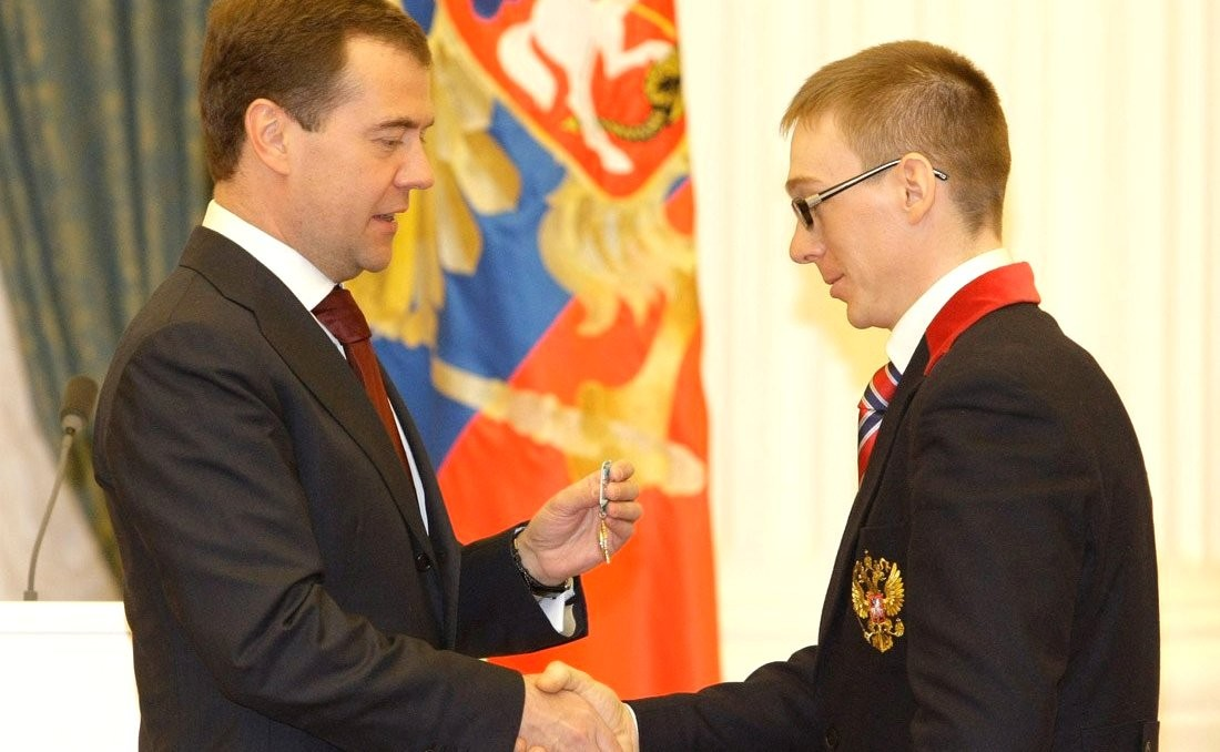 Russian President Dmitry Medvedev and Russian sportsman Nikolay Polukhin at award ceremony